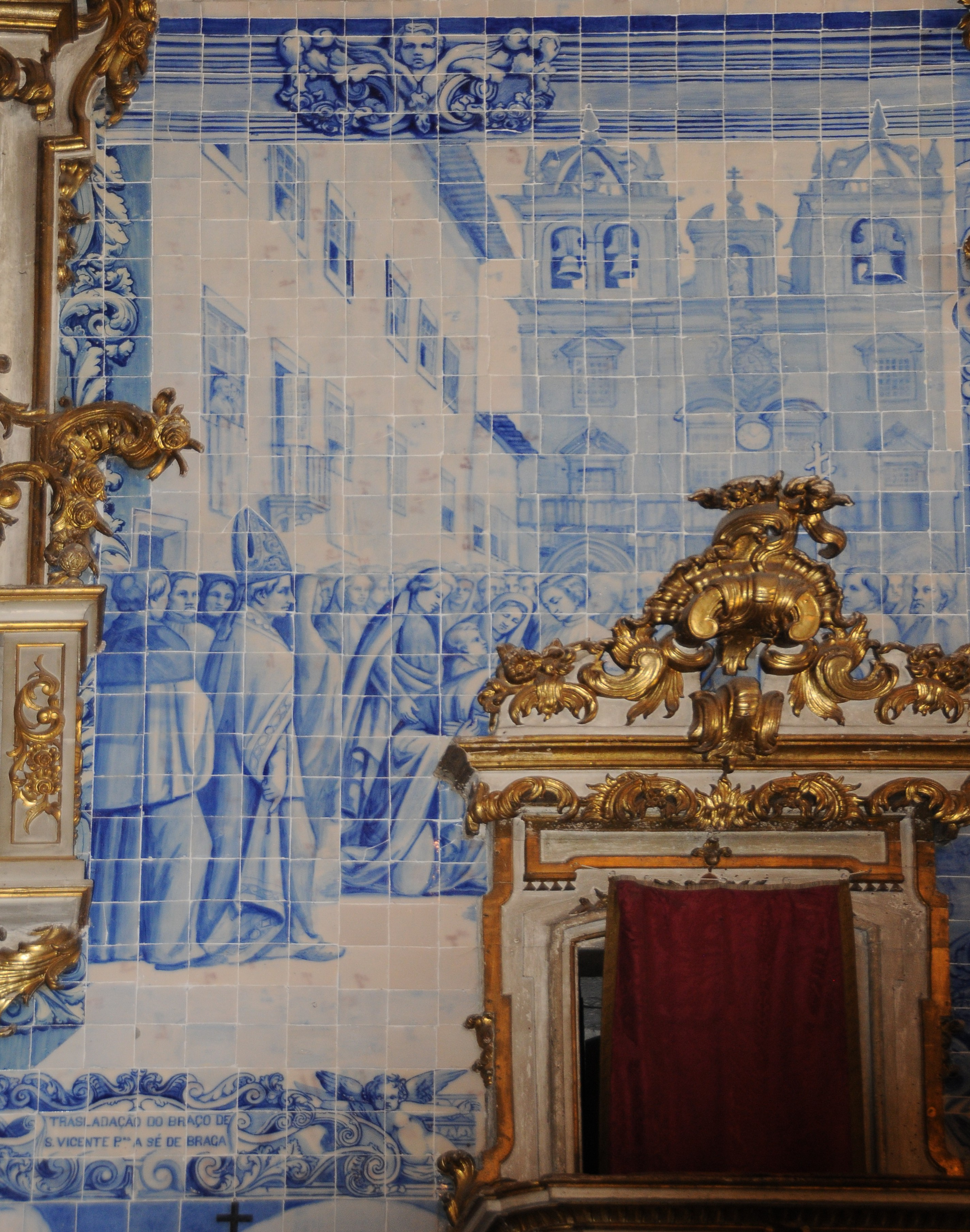 Azulejos in Saint Vincent church in Braga, Portugal.